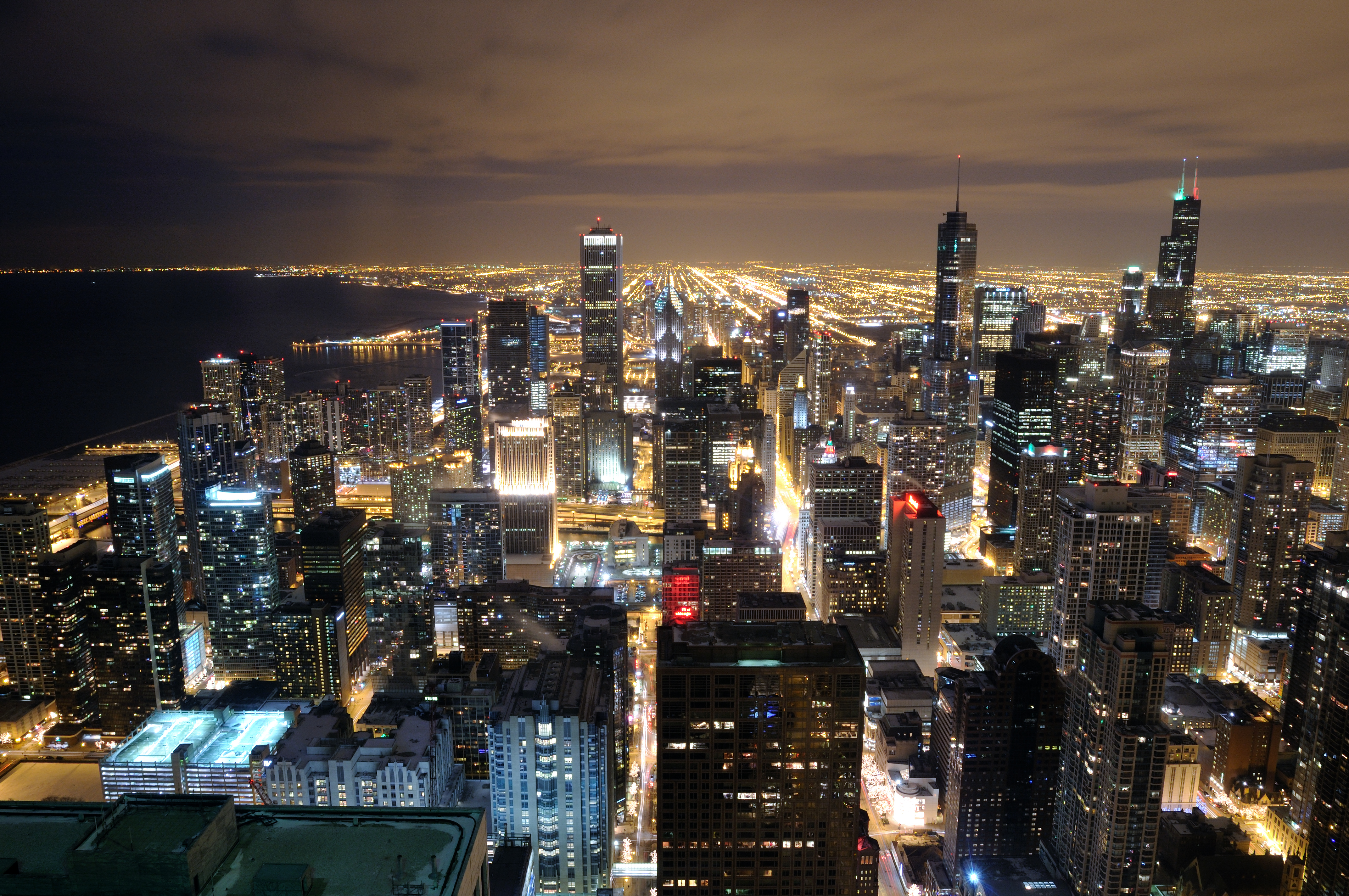 Chicago, U.S